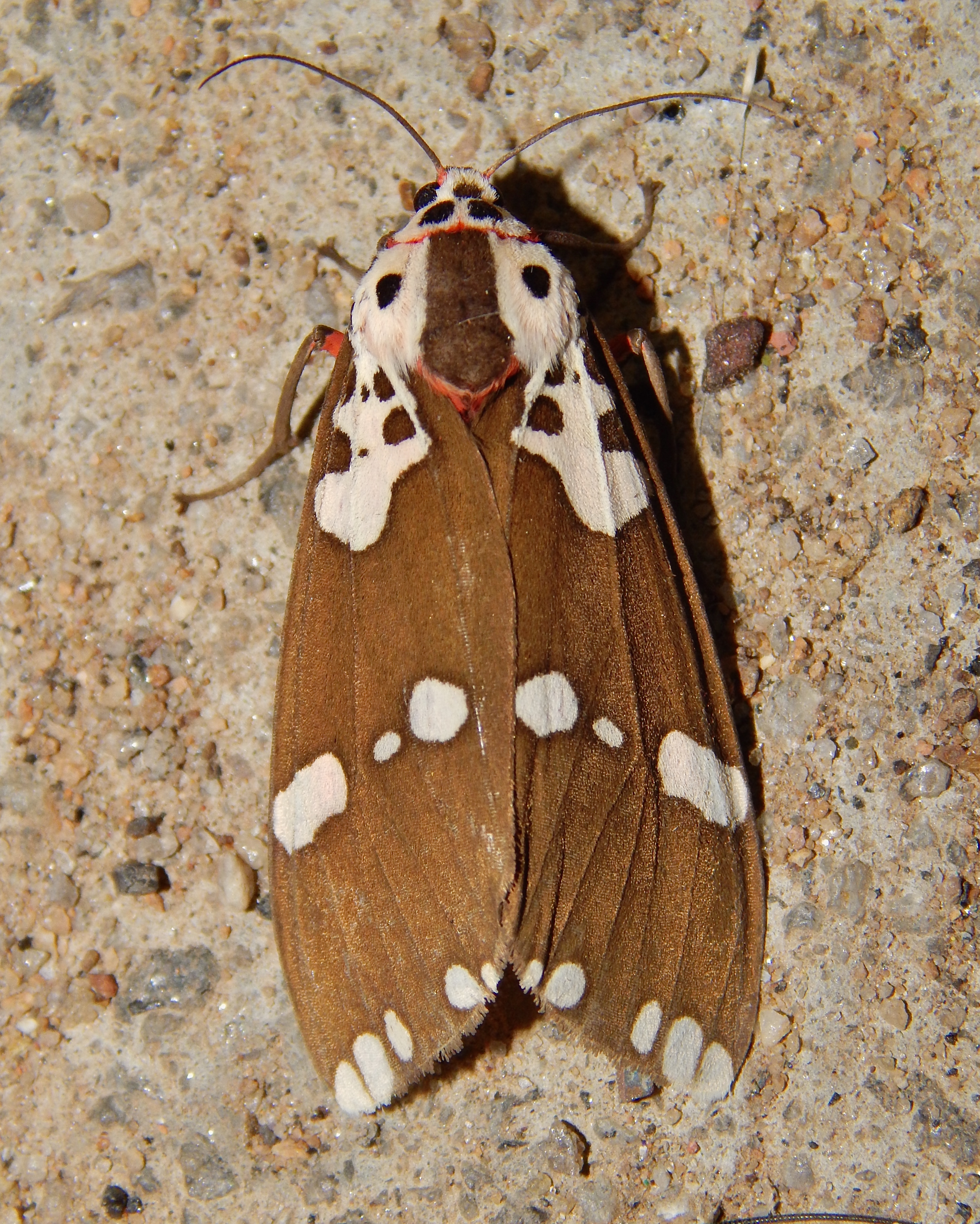 Pangora coorgensis from Coorg, westrn ghats of India